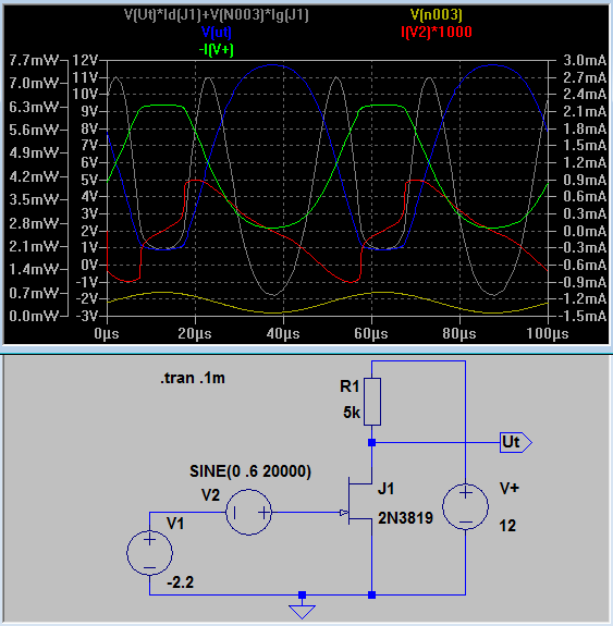 N JFET transistor as a basic voltage amplifier